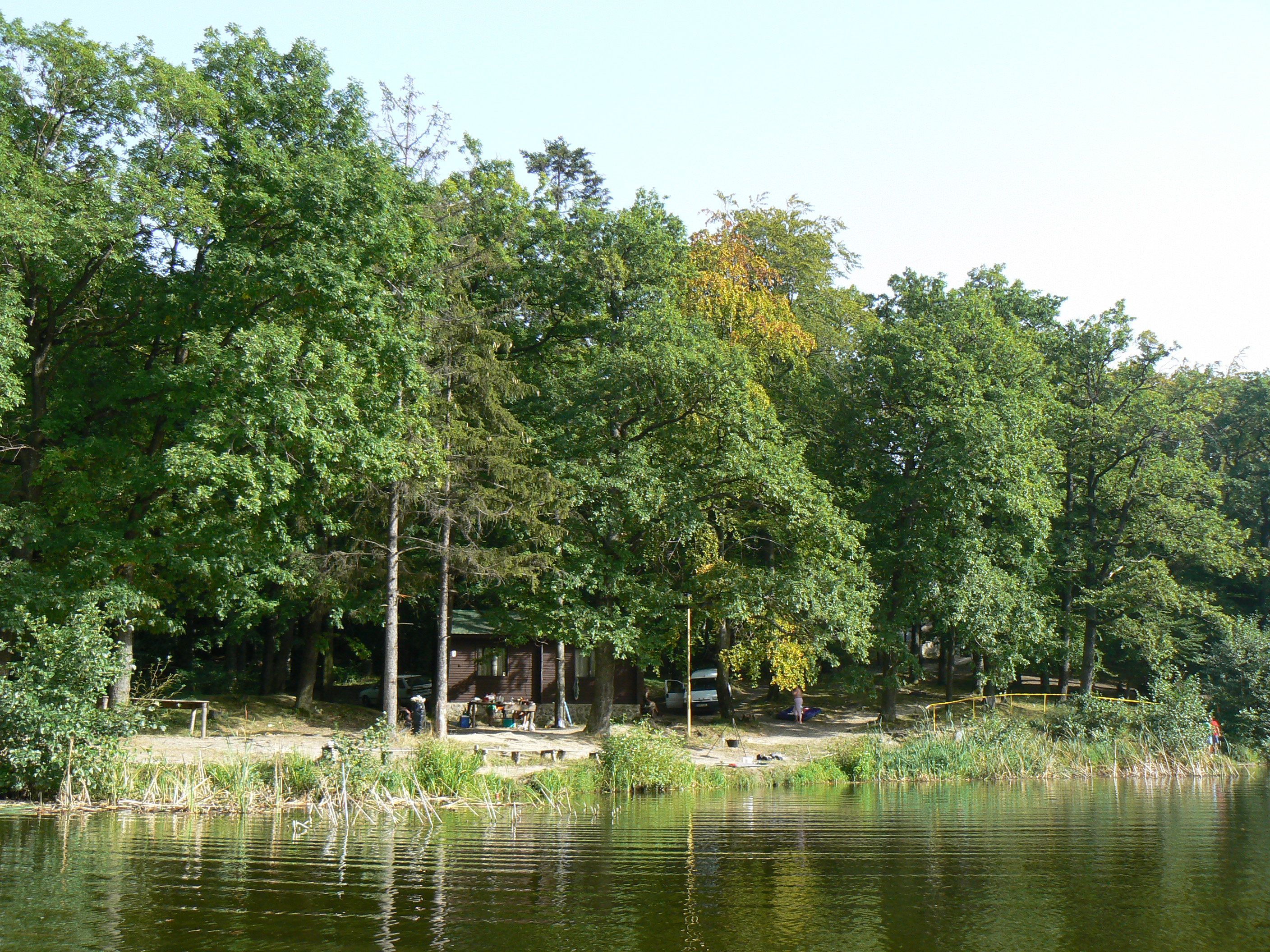 jazero Izra